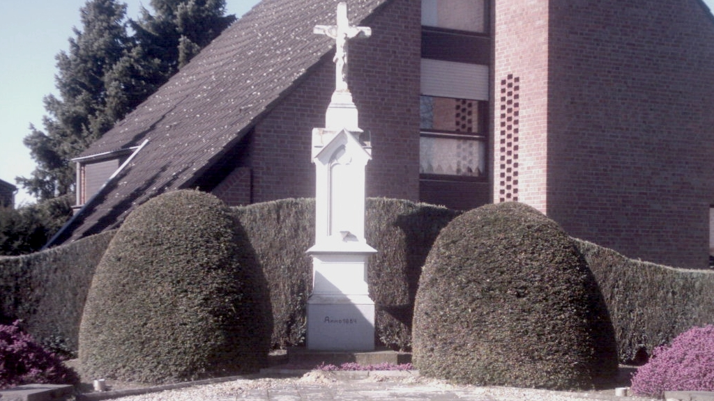 Cross in Heimer, Viersen, Germany